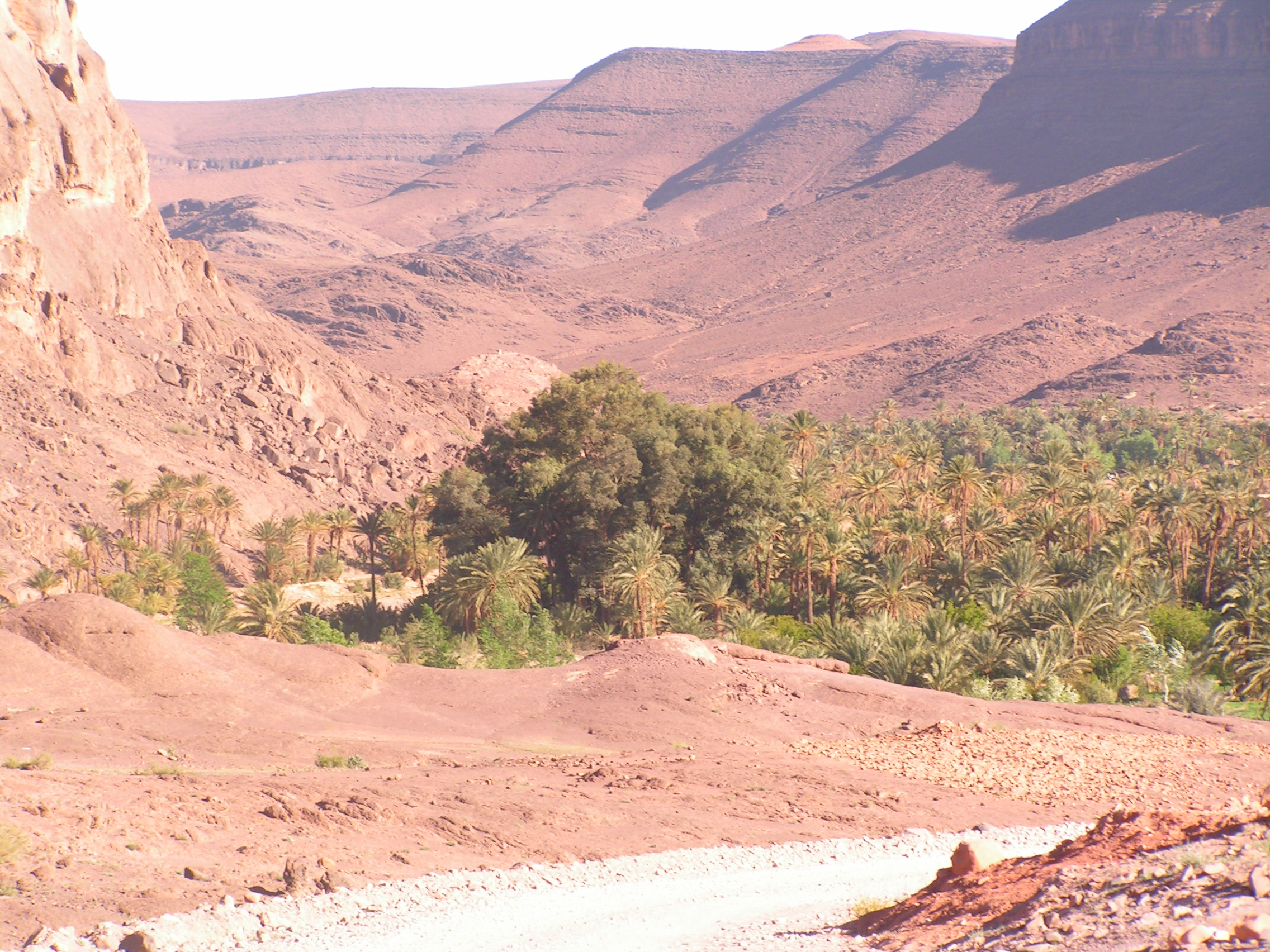 Oasis du Fint, near Ouarzazate, Morocco